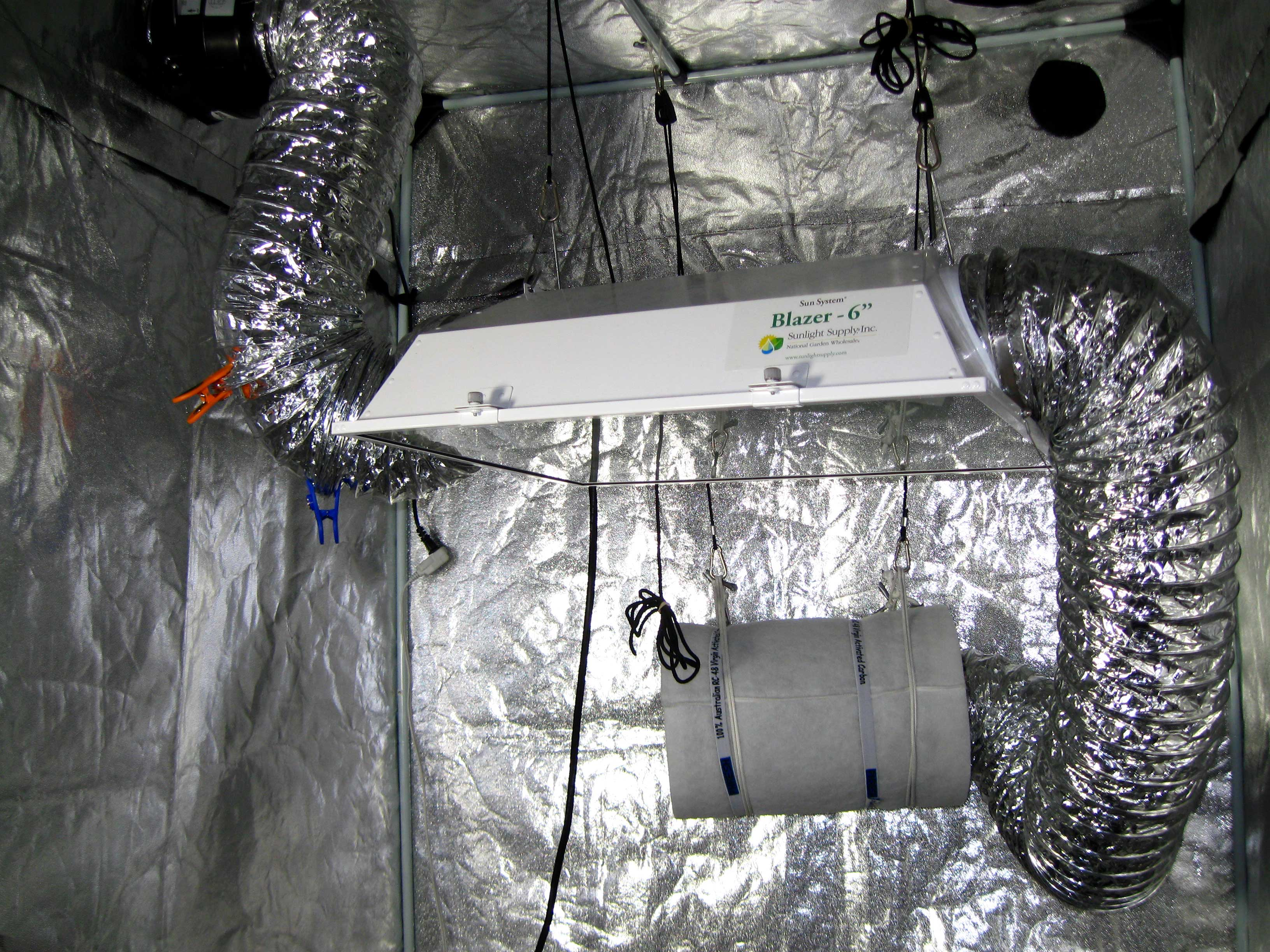 This is an example of an HID grow light system set up in a grow tent. The setup includes a carbon filter to remove any odors, and an exhaust system to cool the bulb and prevent the HPS from heating up the tent. Air from inside the tent is drawn through the carbon filter and over the bulb, then is exhausted out through the ducting using a powerful exhaust fan. Plants would be placed at the bottom of the grow tent.